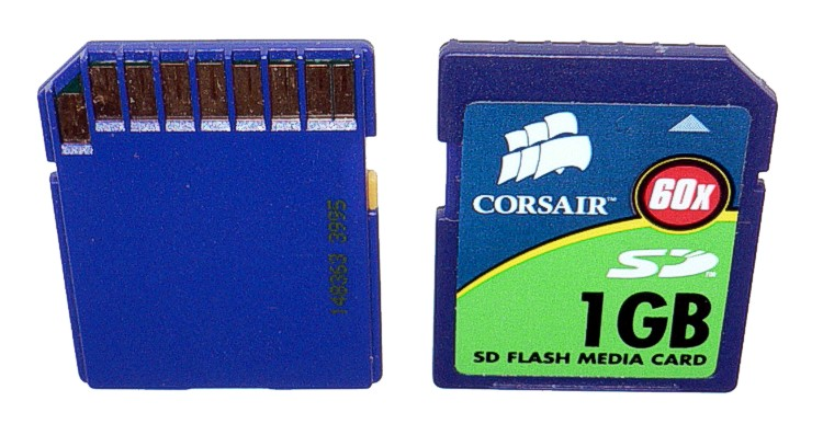 SD cards